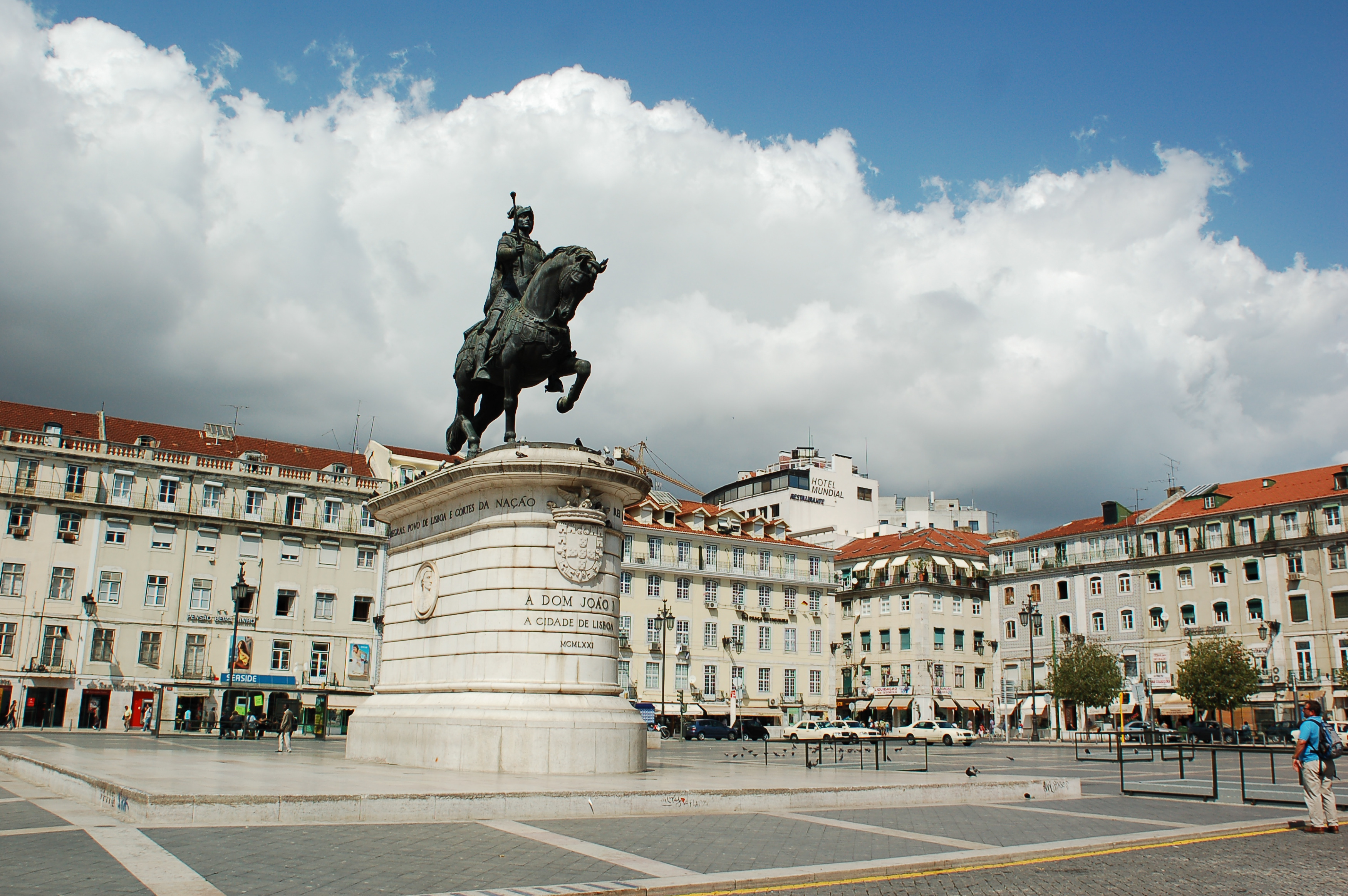 Statue of King John I (The PraГ§a da Figueira). Lisbon, Portugal, Southwestern Europe.